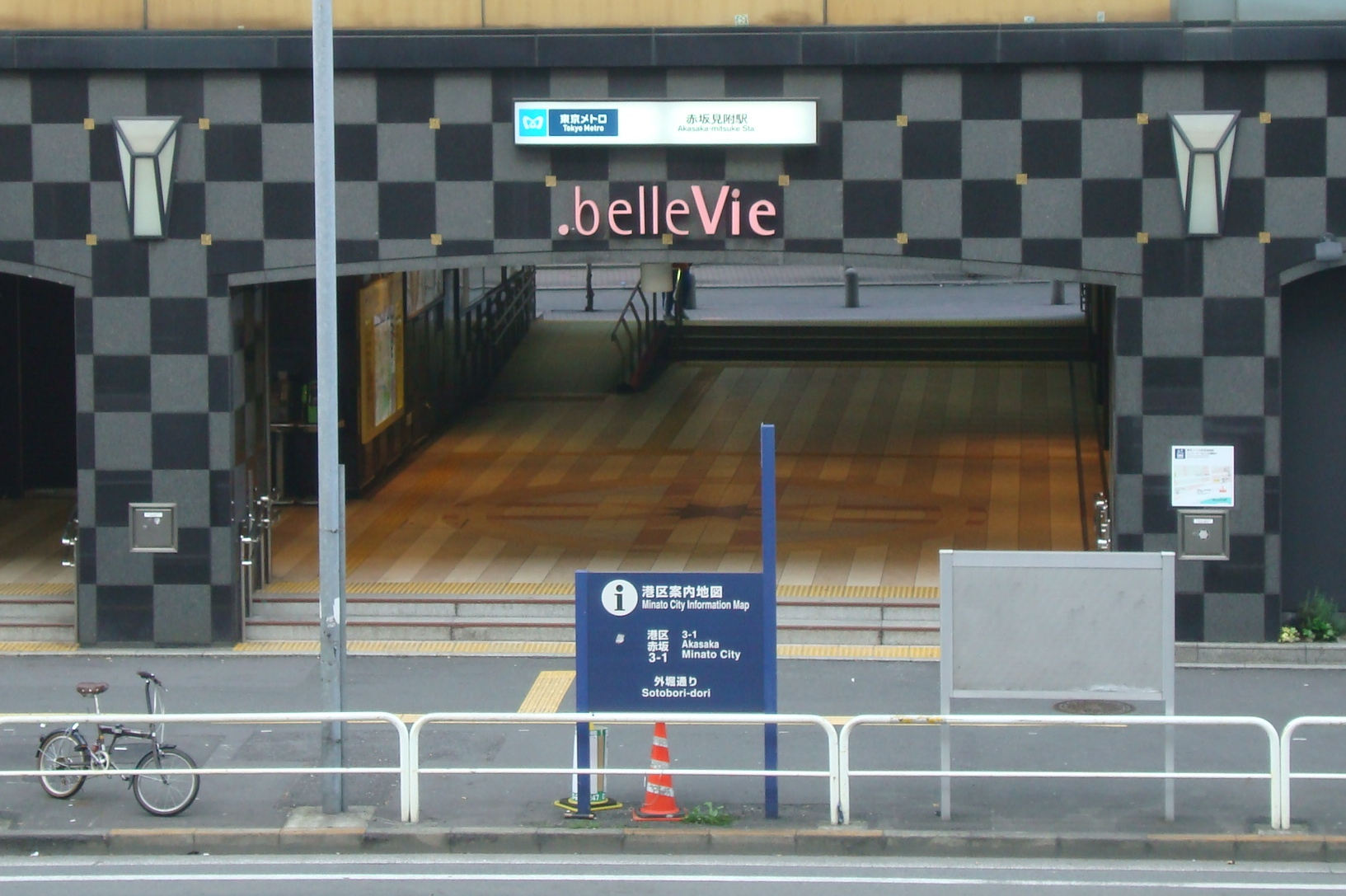 Entrance of Belle-Vie Akasaka and Akasaka-Mitsuke subway station, Akasaka 3, Minato city, Tokyo (On Sotobori-dori Avenue)